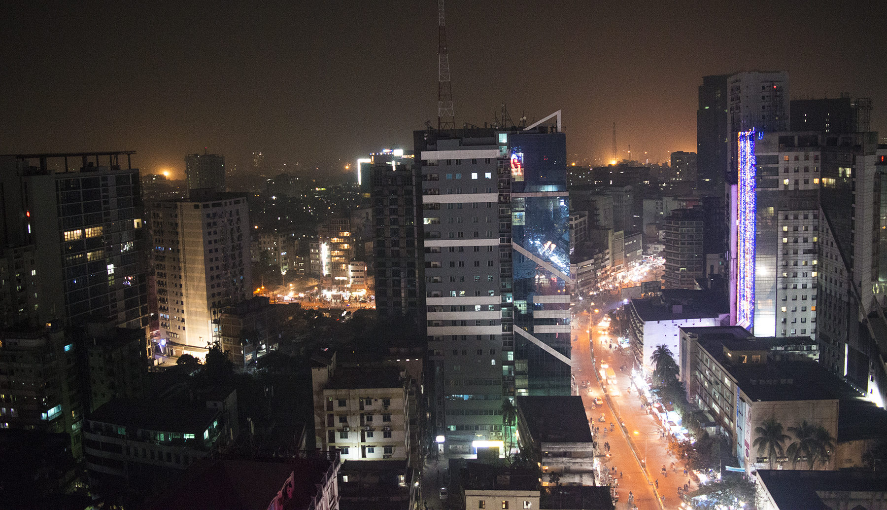 View of Paltan area of Dhaka City.